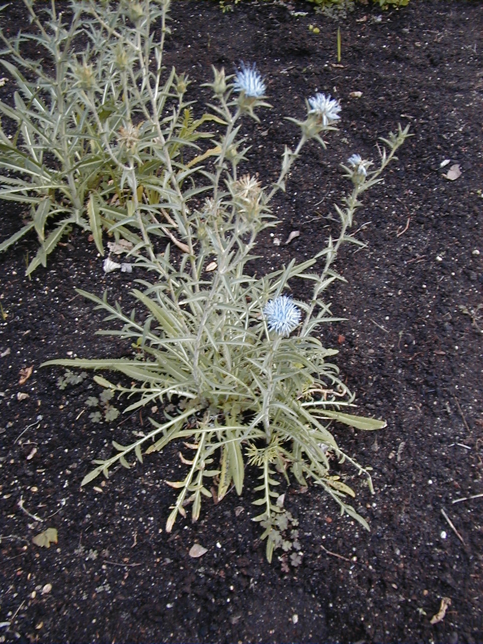 Carduncellus hispanicus. Real Jardín Botánico de Madrid